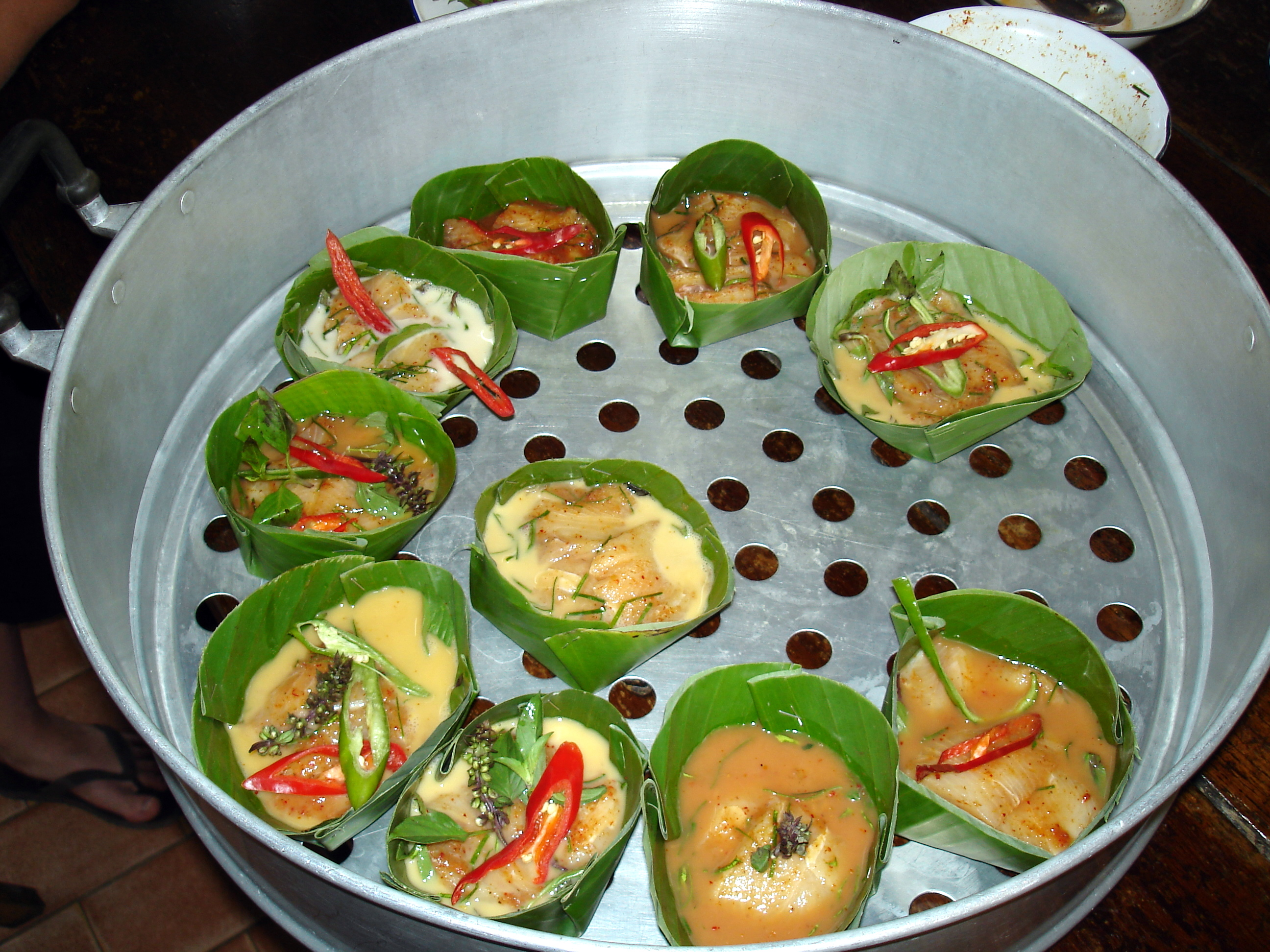 Thai fish souffles in a large steamer, ready to be cooked